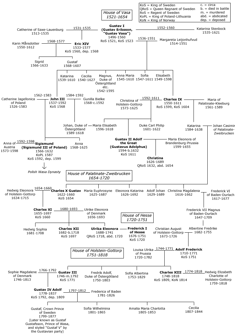 Swedish monarchs family tree, 1521-1818.